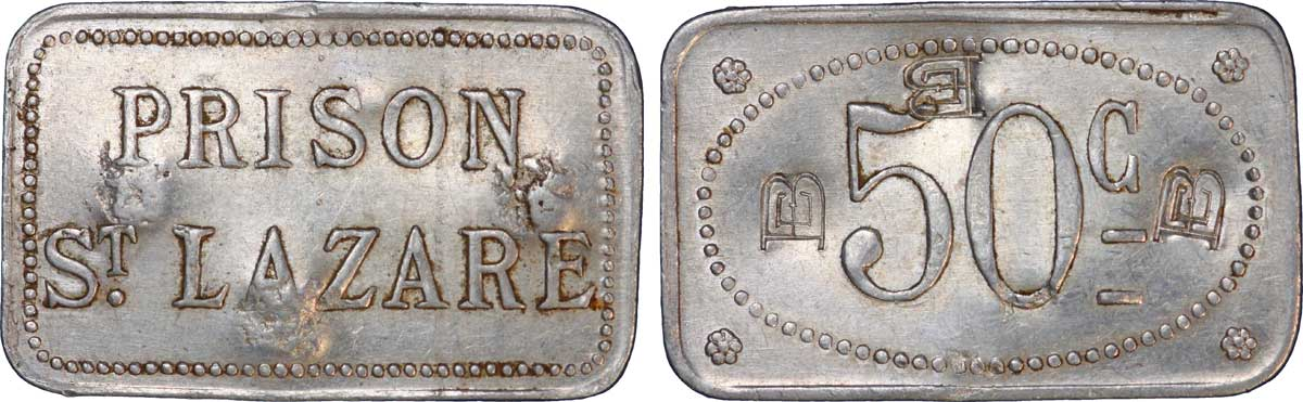 Monnaie interne à l'ancienne prison saint Lazarre